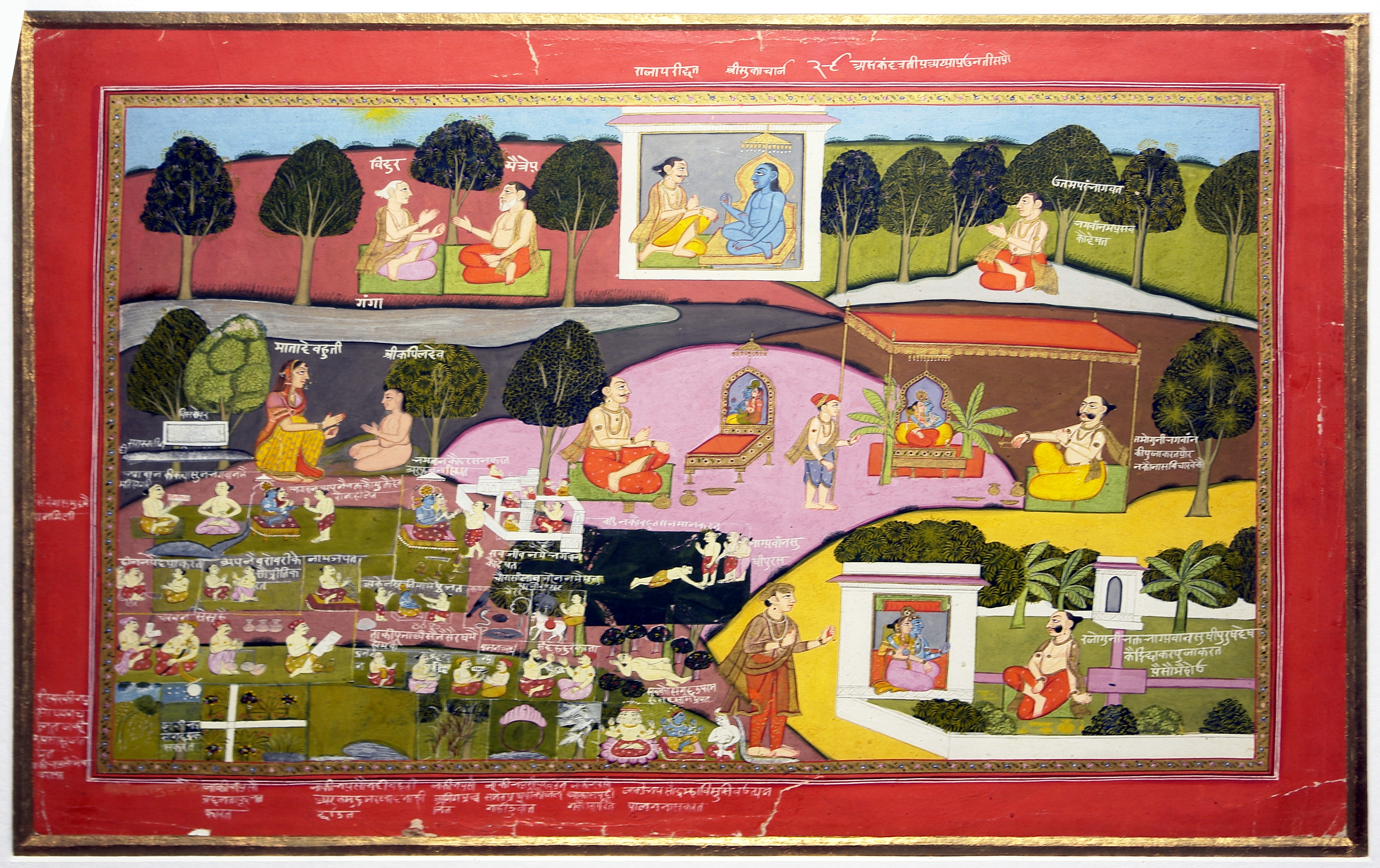 Sage Sukdeva narrating the story of Krishna to Raja Parikshata, National Museum, New Delhi.